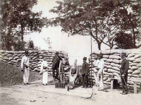 Provisional fortification, 1894. The photograph pictures a 280 mm cannon (unique in Brazil), positioned at the barbette, and soldiers of the 4th Battalion of Artillery of the National Guard (Guarda Nacional). Provenient from the Revolta da Armada series, Museu Histórico Nacional.